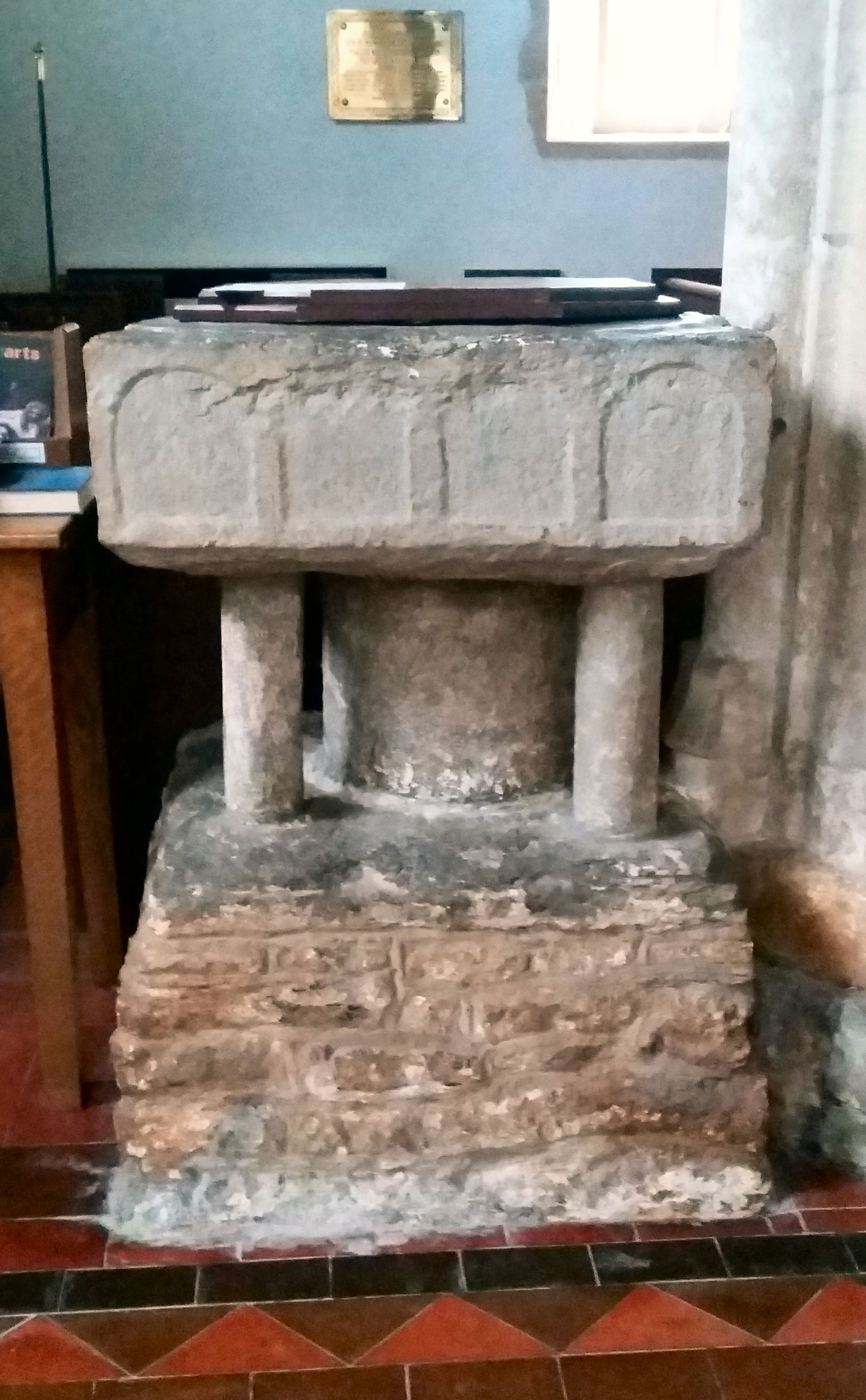 The 12th-century baptismal font in St Peter's church in Shirwell in Devon